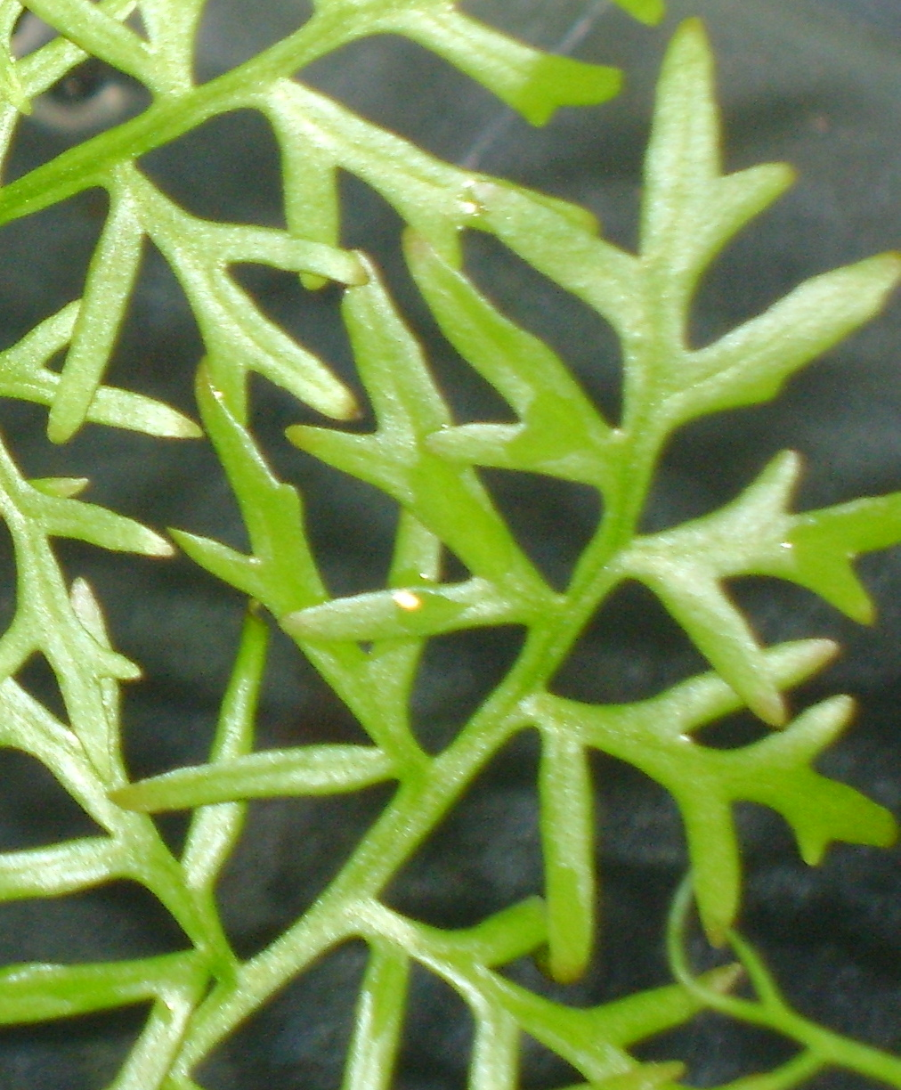 Ceratopteris cornuta (emerse)